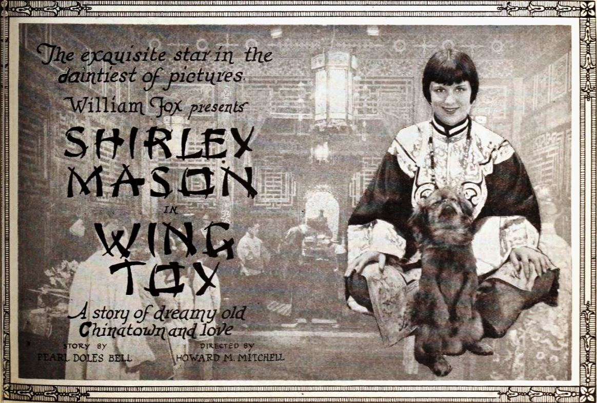 Advertisement for the American drama film Wing Toy (1921) with Shirley Mason, on page 9 of the February 5, 1921 Exhibitors Herald.